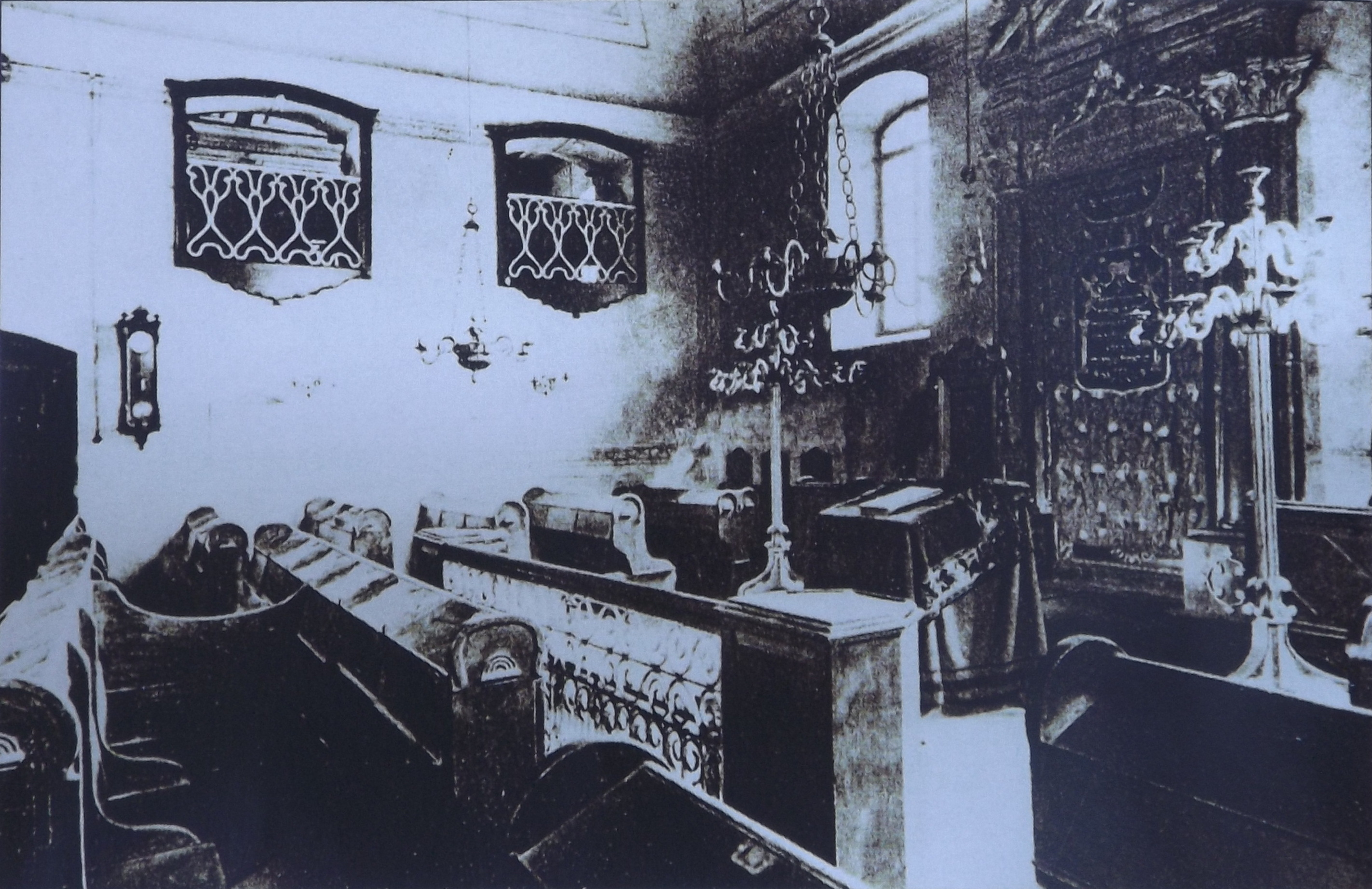 Interior of the synagogue in Kojetín 1931